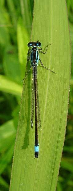 Dragonfly